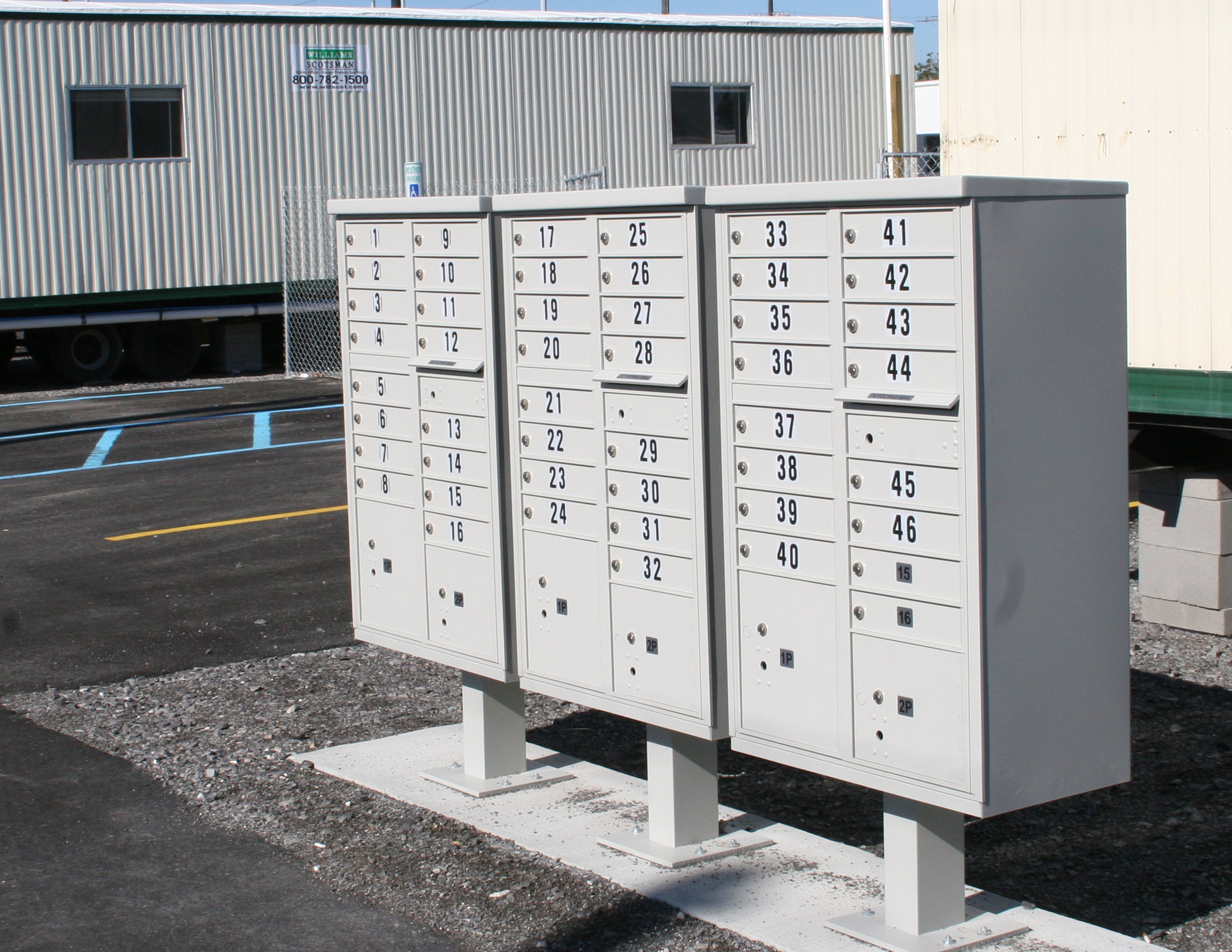 New Orleans, LA, December 20, 2005 - These mailboxes are set up for families that will be living in temporary housing provided by FEMA at this former baseball field, Roehm Park. 46 travel trailers are currently set-up and awaiting approval from the local authorities. Robert Kaufmann/FEMA